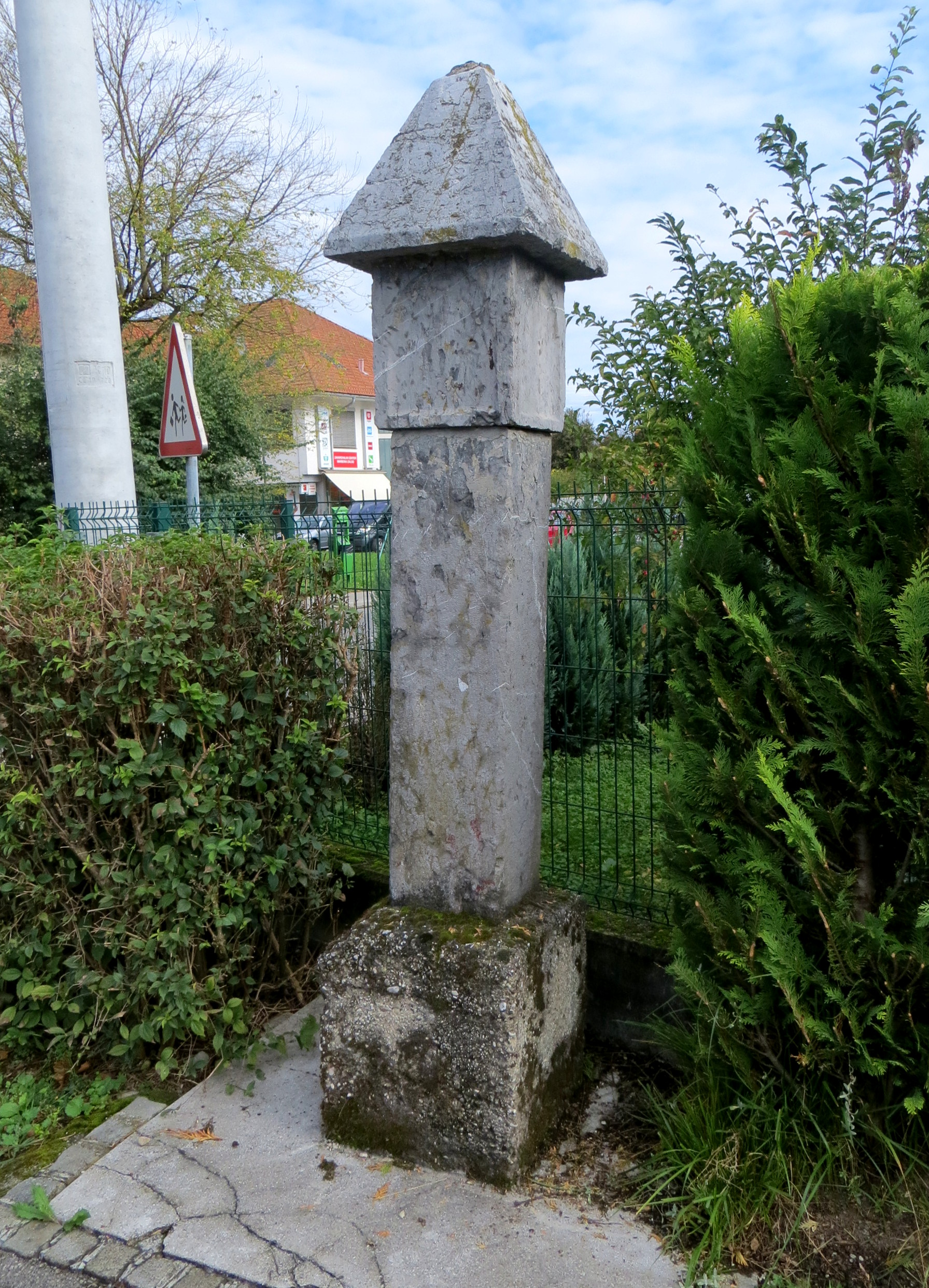 Plague column from 1793 in Zalog, City Municipality of Ljubljana, Slovenia